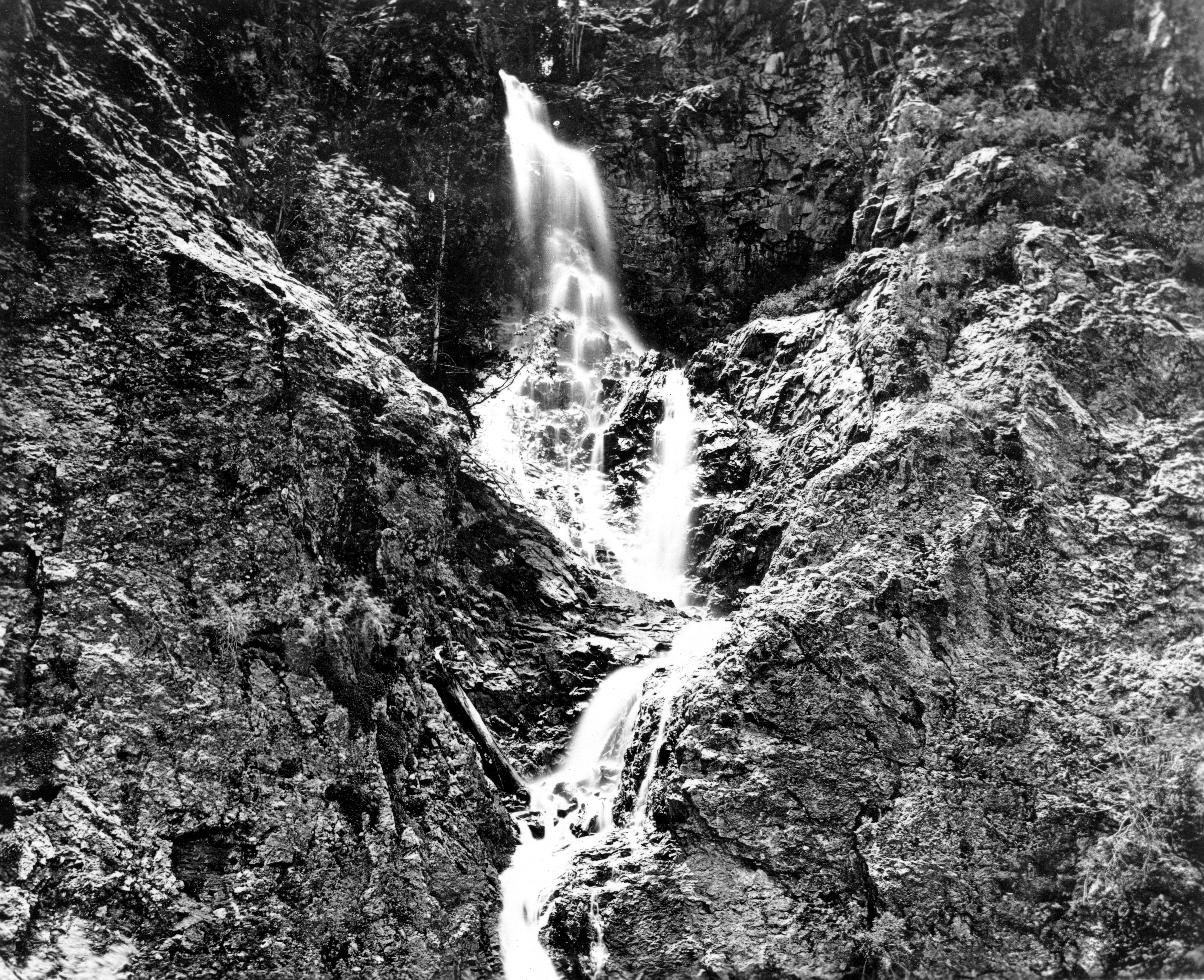 Pilling's Cascade, Bullion Canyon. Utah. Also known as Renshawe's Cascade.